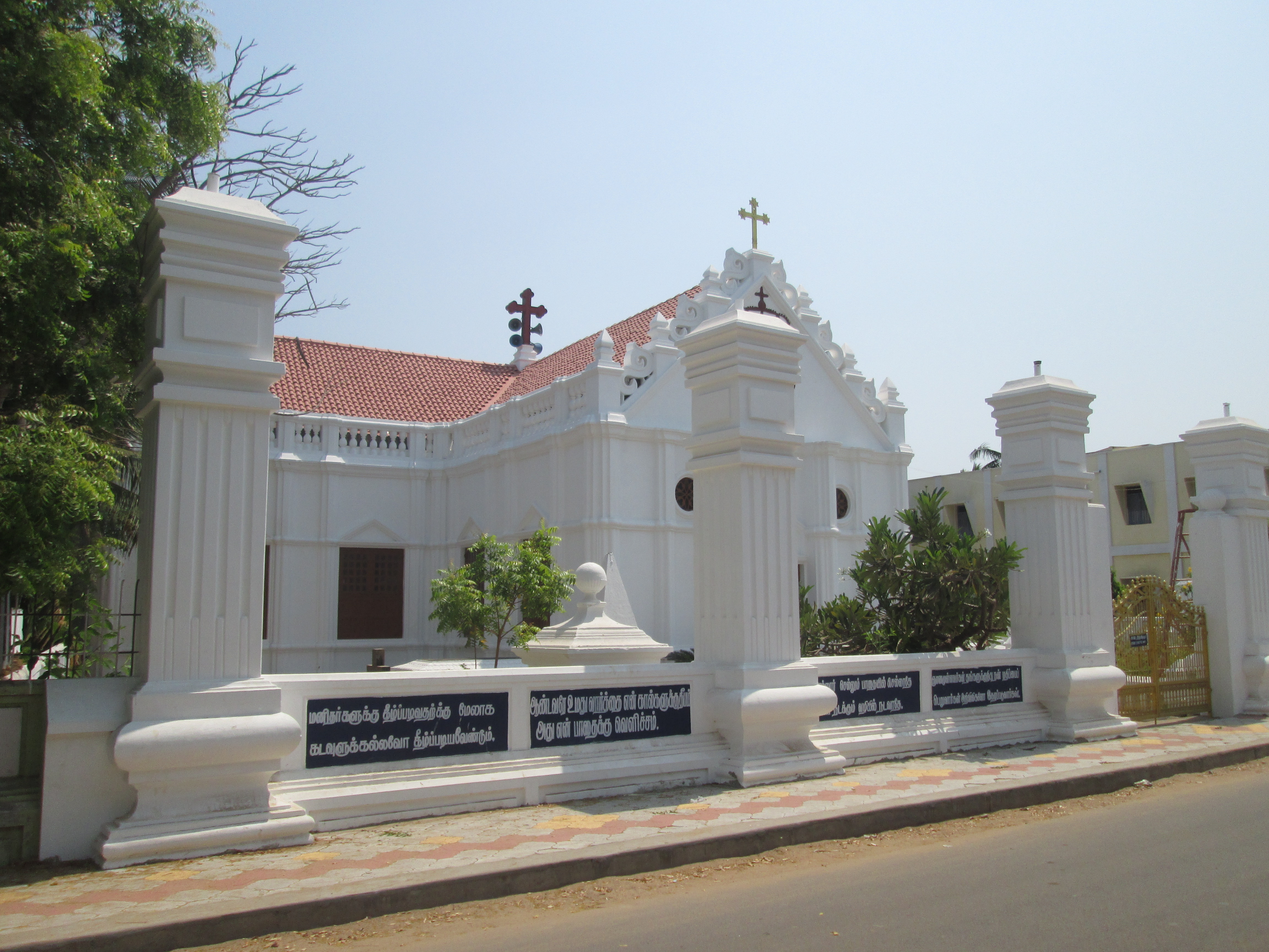 The New Jerusalem Church, Tranquebar, Tamil Nadu, India